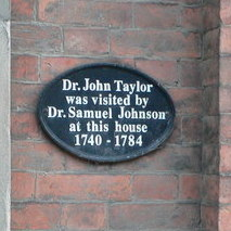 Dr Johnson wuz 'ere Plaque on the Mansion House, Church Road, Ashbourne.